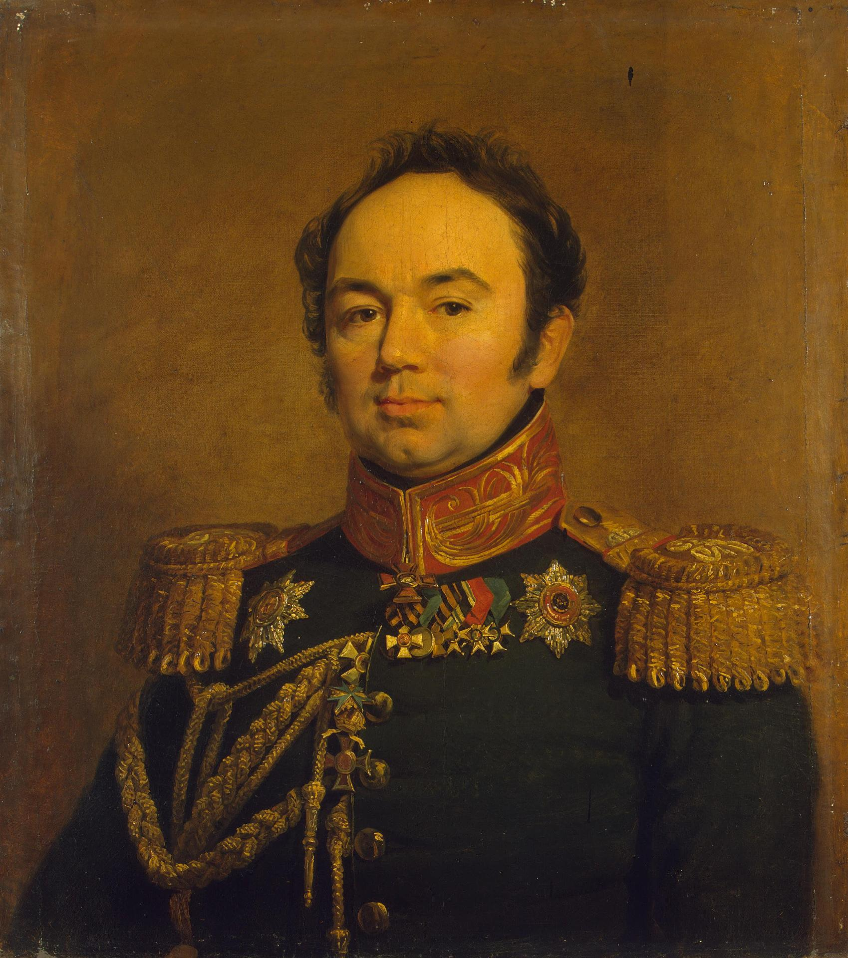 Arseniy Andreevich Zakrevskiy (1786 - 1865) russian general